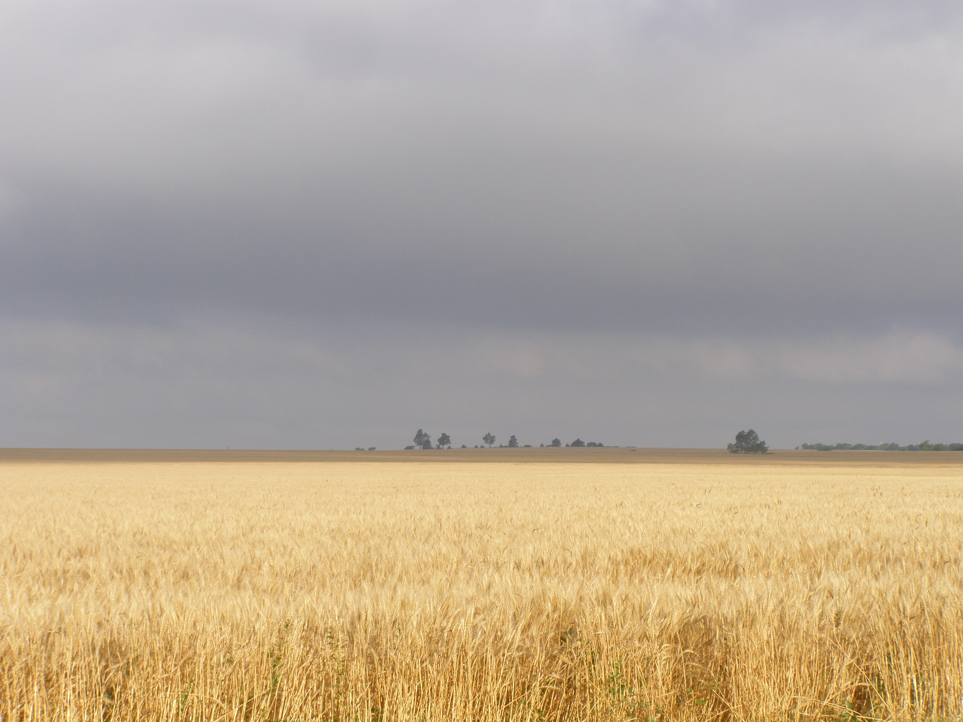 Wheat field in Central Kansas.